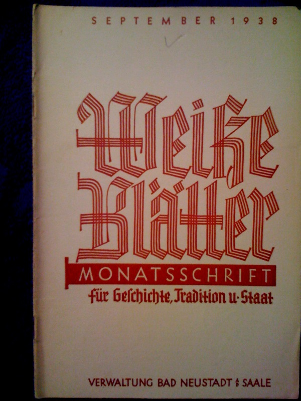 Title page of the White Papers (in german: "Weiße Blätter") from September 1938